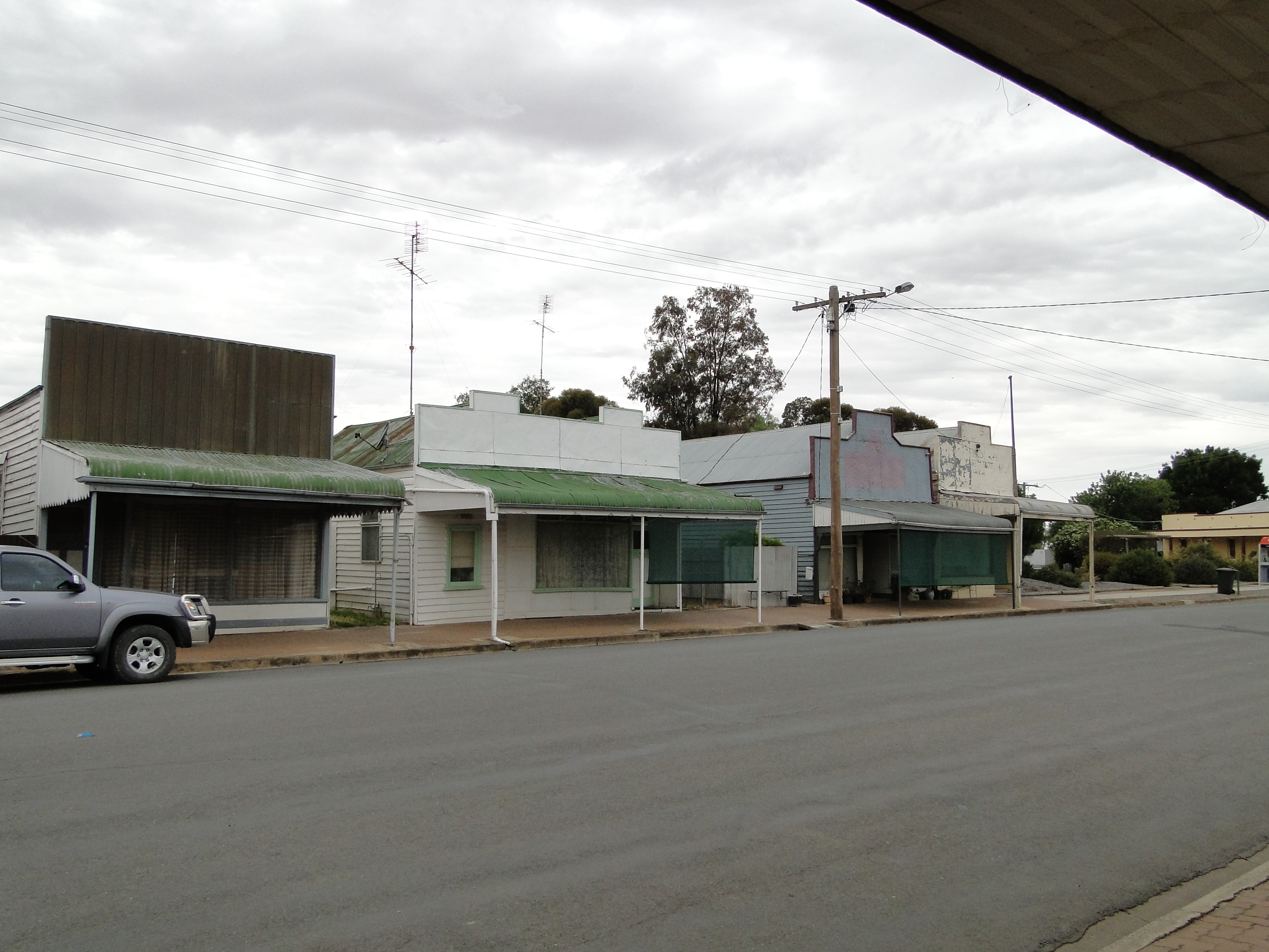 Shops in the main street of Beulah, Victoria, Australia.